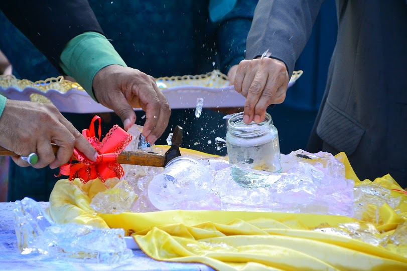 Cekap tenaga 12